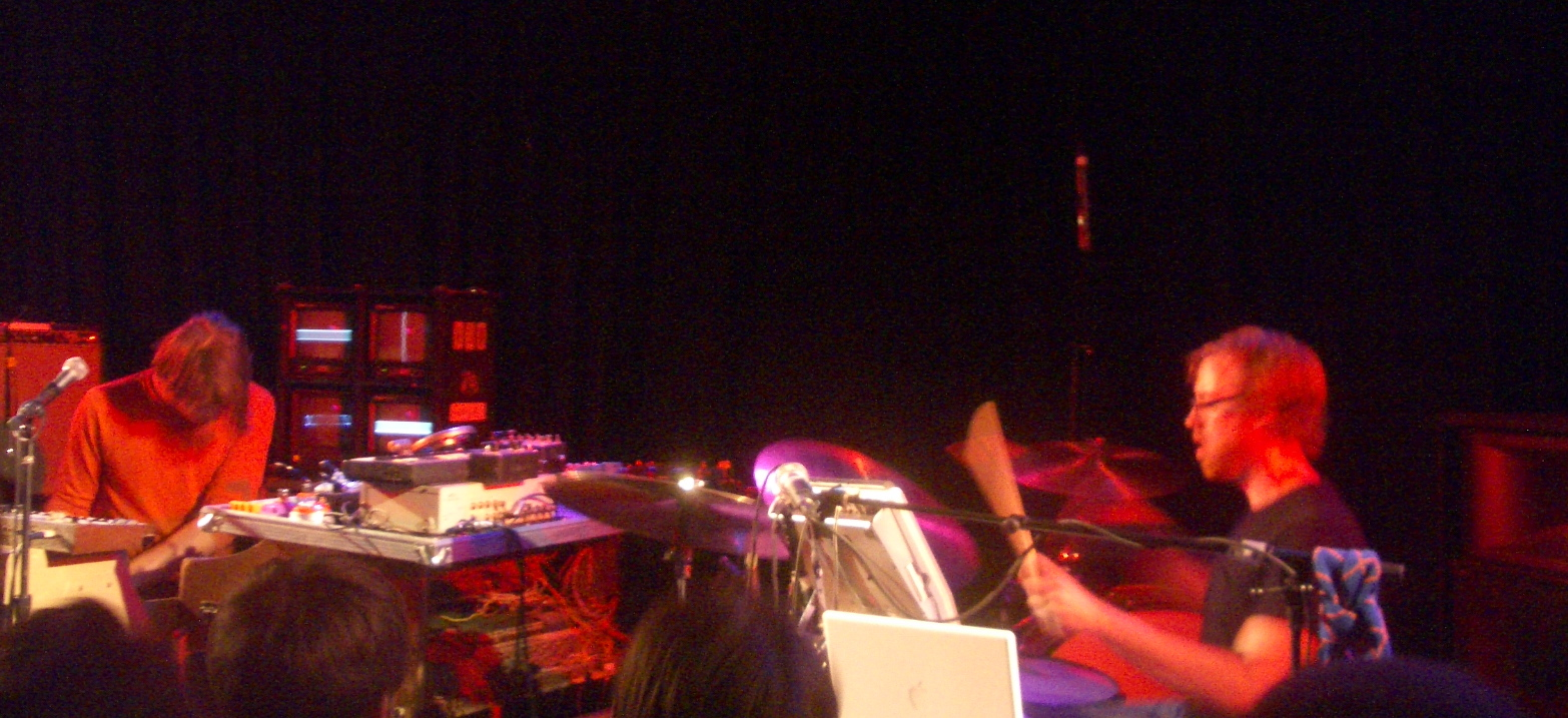 The Benevento/Russo Duo performing in Madison, United States